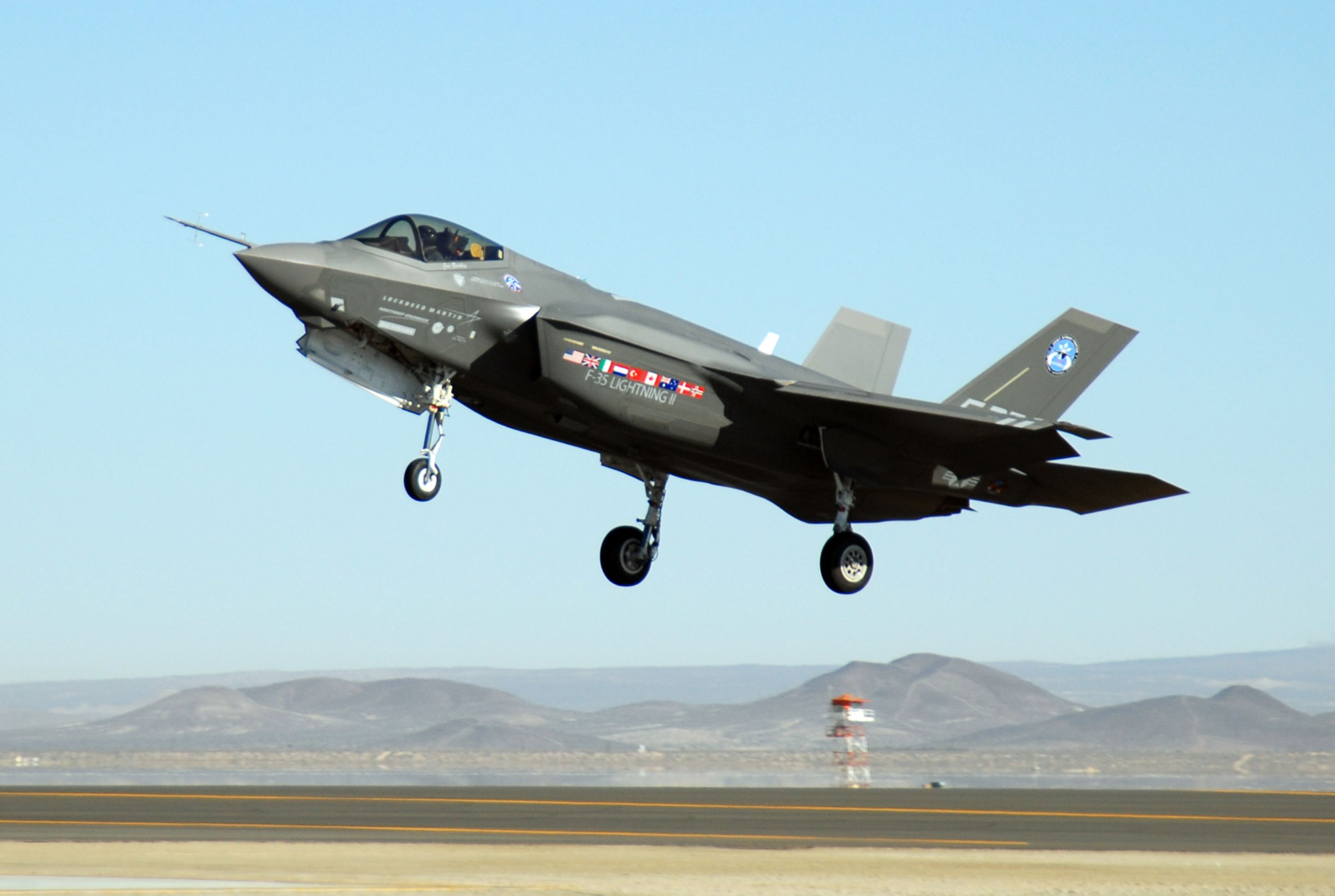 An F-35 Joint Strike Fighter, marked AA-1, lands Oct. 23 at Edwards Air Force Base, Calif. The F-35 Integrated Test Force staff concluded an air-start test. On the side of the fuselage, the flags of the countries that financed the F-35's development, in decreasing order of investment magnitude.